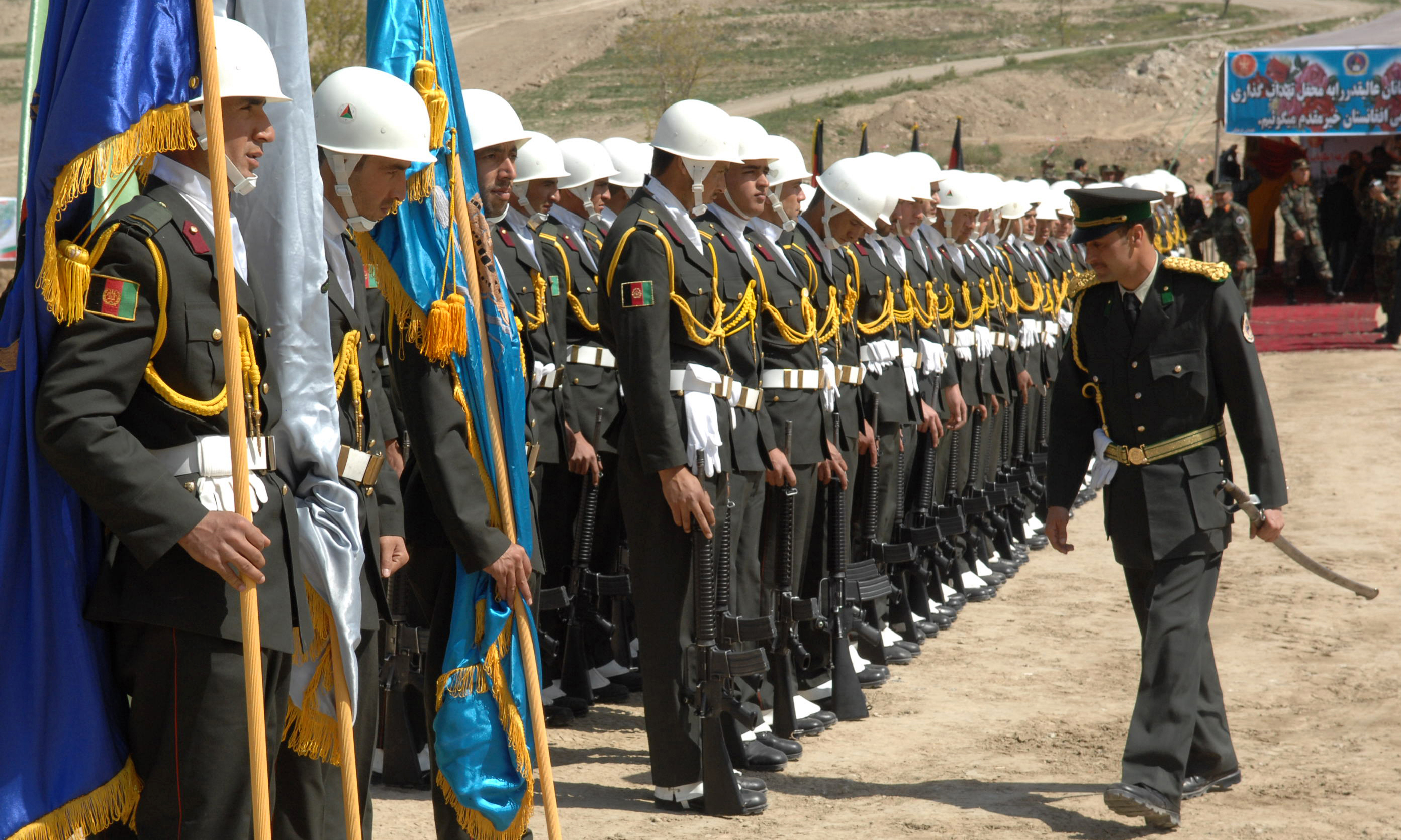 Qargha, Afghanistan (6 Apil, 2001) -- Cadets from the National Military Academy Afghanistan stand in formation awaiting arrival of the official party for the cornerstone laying ceremony of the NMAA. This ceremony established NMAA and Defense University at Qargha. (U.S. Air Force photo by Staff Sgt. Jeff Nevison)